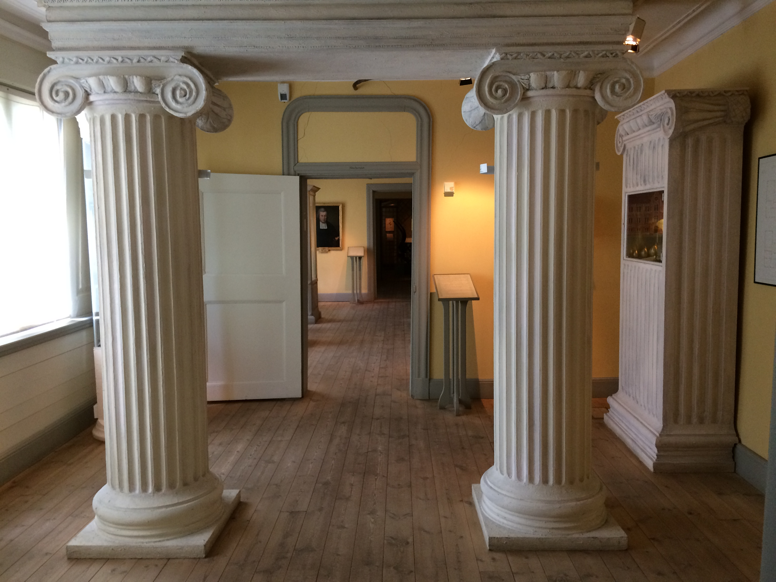 Universitetsmuseet i Lindforska huset på Kulturen, interiör, i maj 2017.